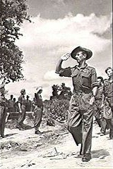 Warrant Officer Class II Walter Peeler VC of the 2/2nd Australian Pioneer Battalion gives eyes right as he leads his Company of ex-prisoners of war past the saluting base where Major C. E. Green, Commanding Officer, 2/4th Machine Gun Battalion, takes the salute at the Phetburi POW Camp. Peeler had previously served in the First World War, and was decorated with the Victoria Cross in 1917.